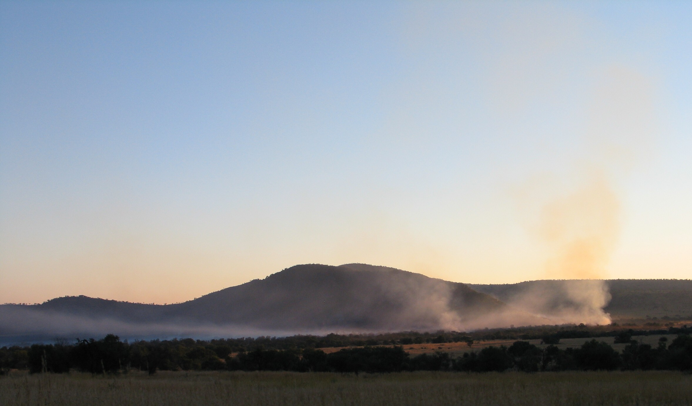 A managed bush fire at dusk in Pilanesberg Game Reserve, South Africa